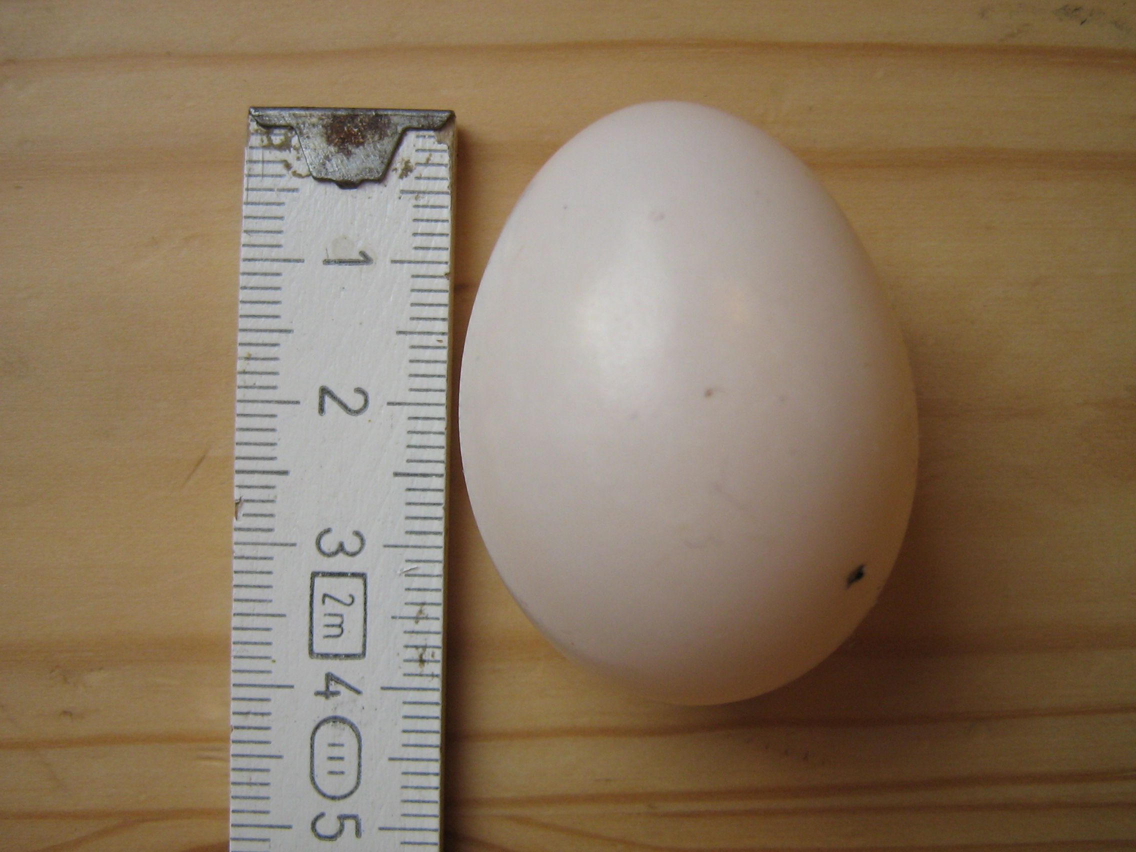 Egg of a rock dove/Stadttauben-Ei (scale in cm)